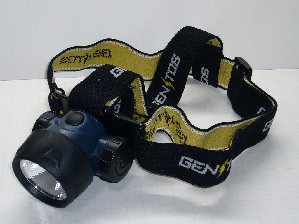 This photograph is a flashlight of the types to be able to possess a head.